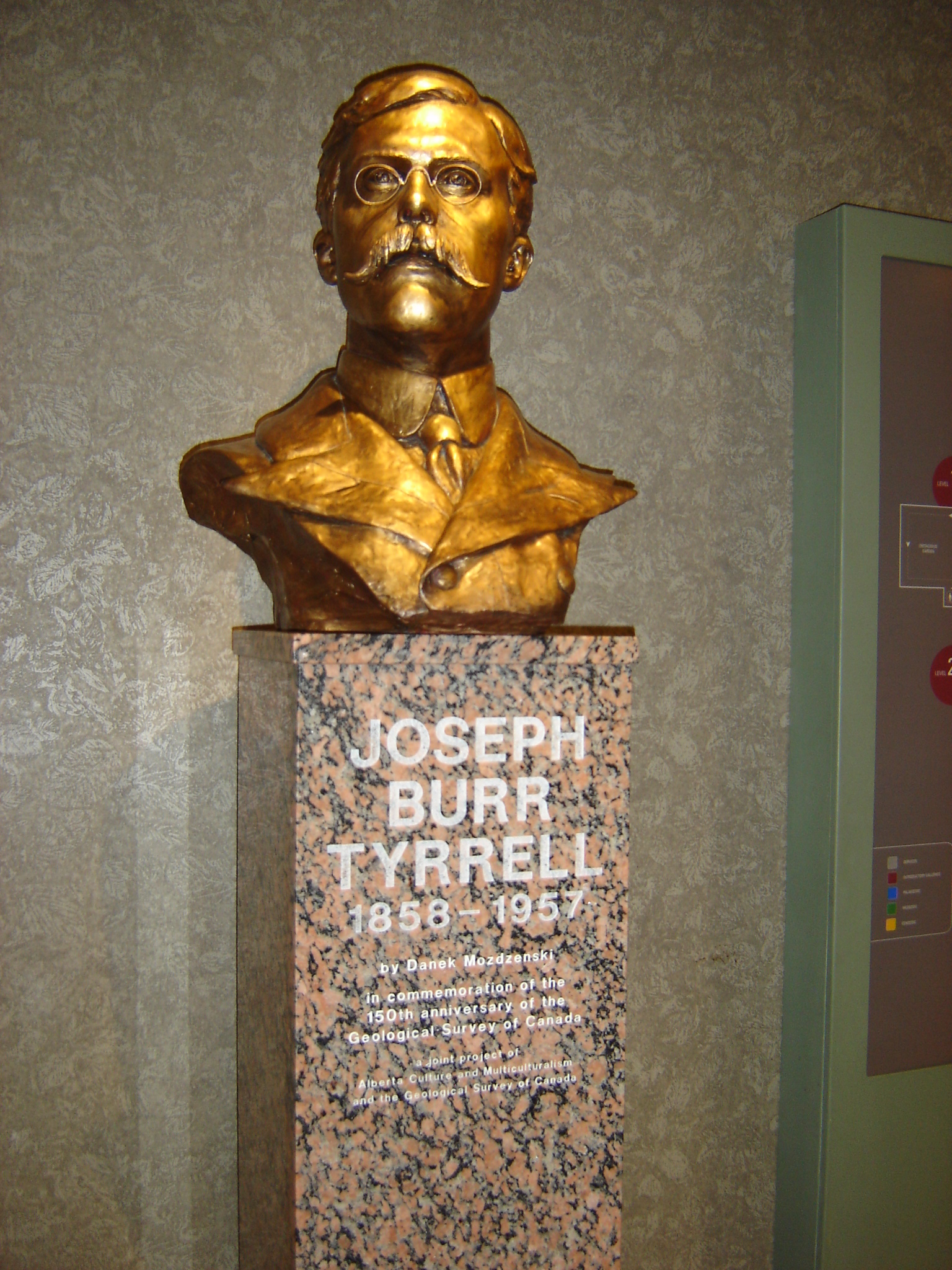 This picture was taken by me, Prakash Subbarao, on 26th May 2007. during a visit to the Royal Tyrrell Museum in Drumheller. I hereby place it in the public domain.